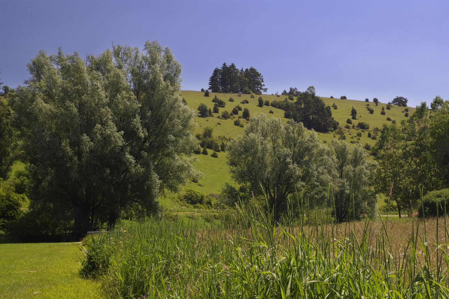 Well kept juniper heath, protected as a biotope at Gomadingen, Swabian Alb. The river ground, fed by two small springs and the river, are humid and fertile. The picturesque spot is the valley gate of the Große Lauter.